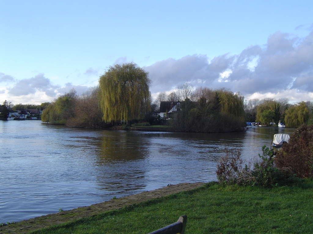 Pharaoh's Island, on the Tames, picture taken from the shore